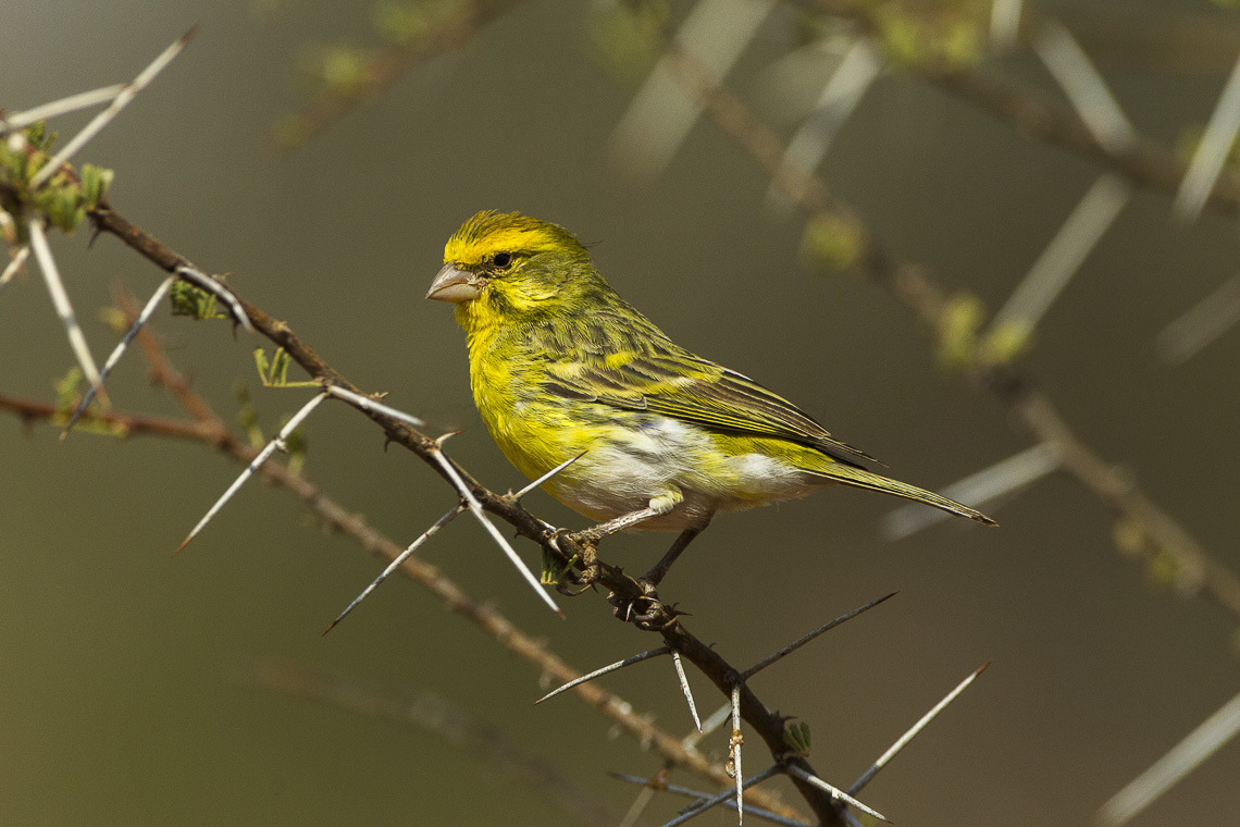 White-bellied Canary - Samburu - Kenya_S4E5349